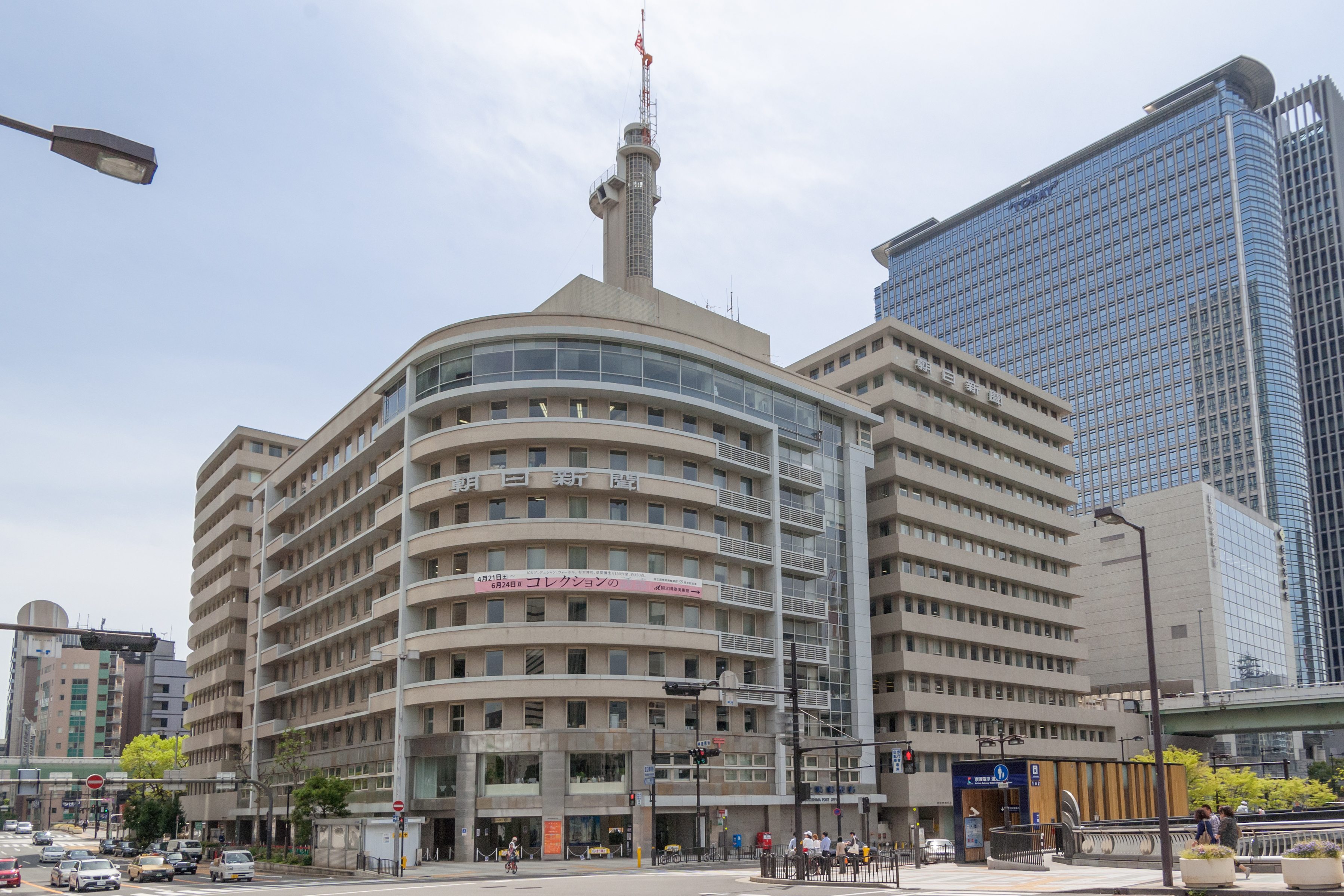 Photograph of Asahi Building and Asahi Shimbun Building, Osaka Head Office of Asahi Shimbun Company, in Kita-ku, Osaka, Osaka Prefecture, Japan.